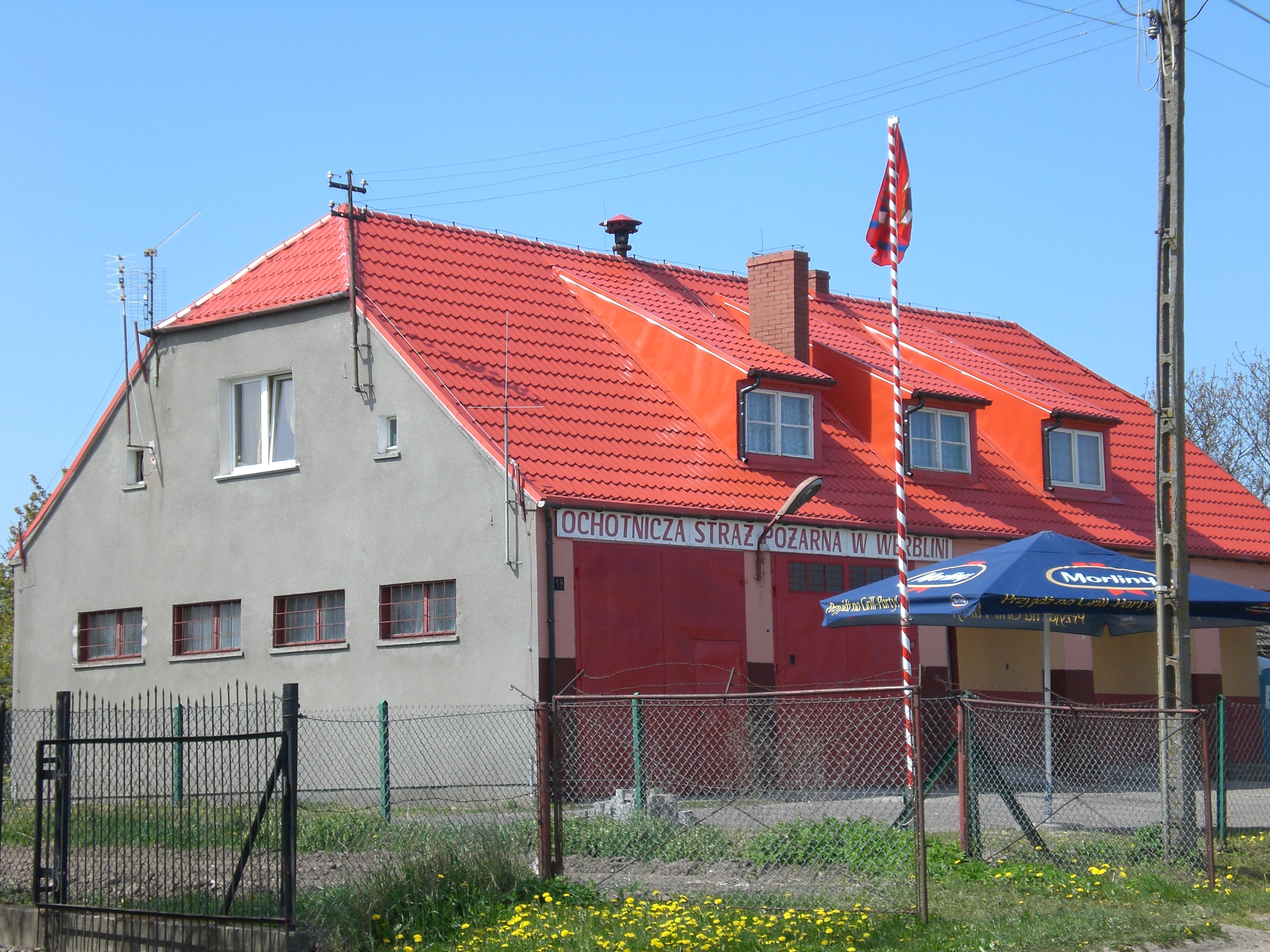 Werblinia - fire station